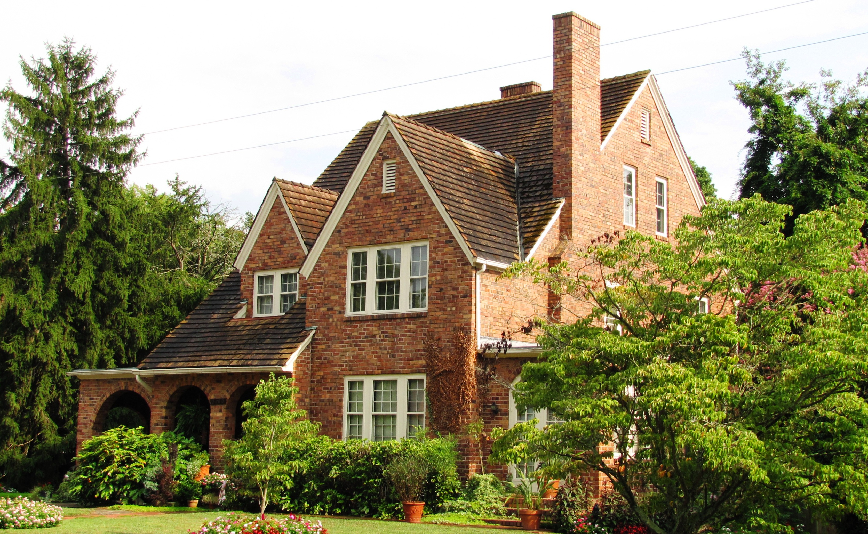 House at 2100 Spence Place in the Island Home Park neighborhood of Knoxville, Tennessee, USA. Built circa 1927, it was the home of hardware store owner James A. Ferguson in the late 1920s, and in the late 1930s it was the home of TVA engineer Carl Bock. The house is now a contributing property within the NRHP-listed Island Home Park Historic District.